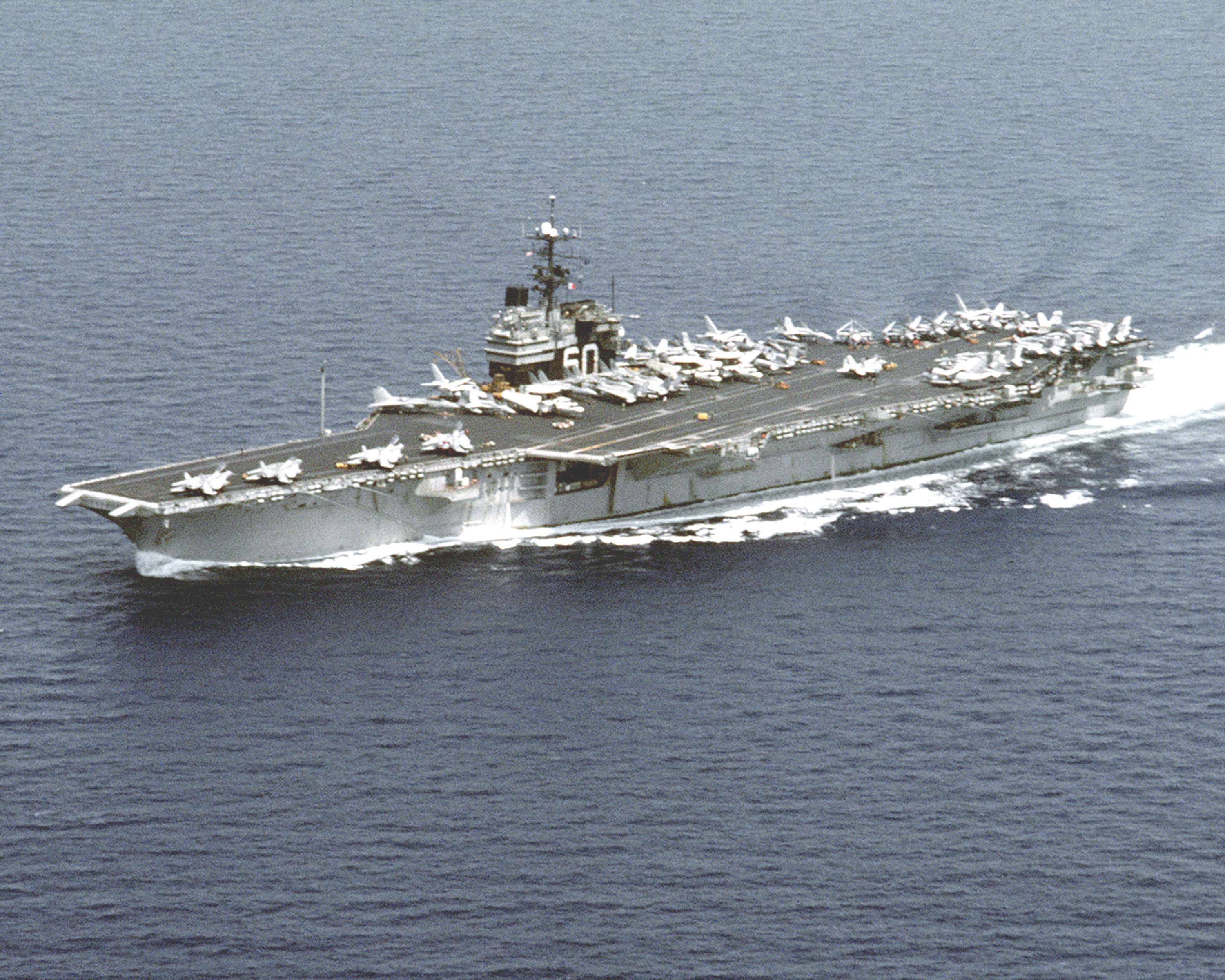 The U.S. Navy aircraft carrier USS Saratoga (CV-60) underway in the Adriatic Sea on 29 July 1992. Saratoga, with assigned Carrier Air Wing 17 (CVW-17), was deployed to the Mediterreanean Sea from 6 May to 6 November 1992.